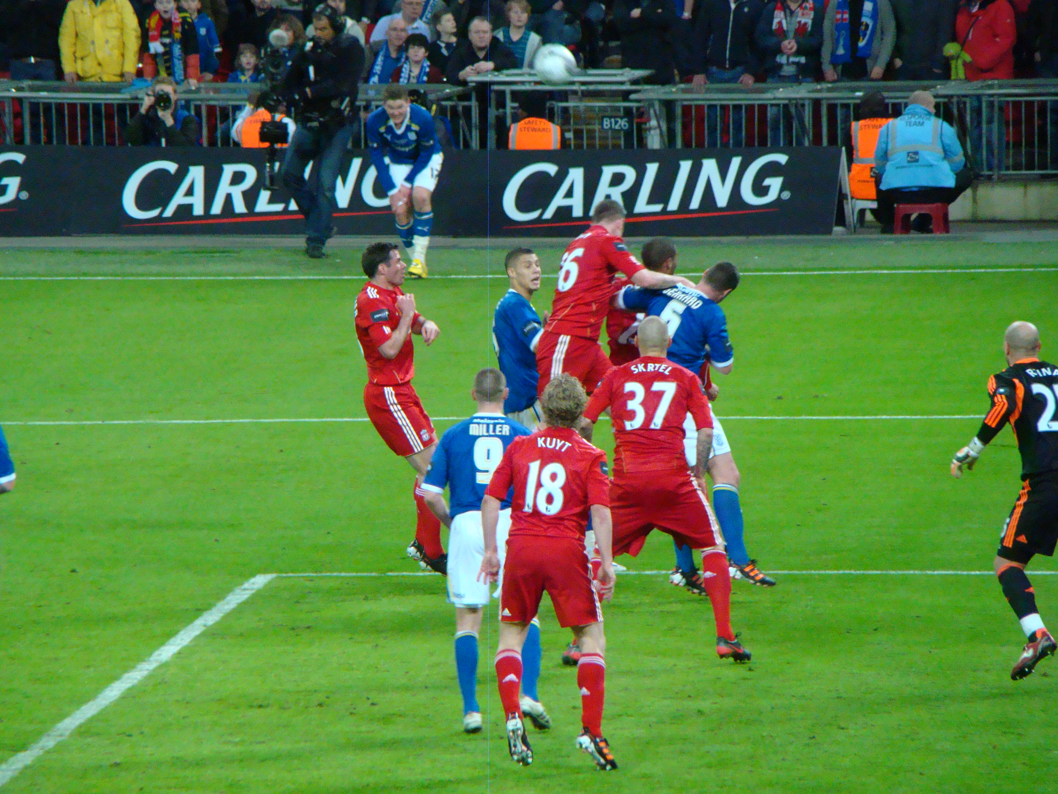 26/02/12 Cardiff V Liverpool, Football League Cup Final, Wembley, London